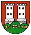 Coat of arms of Voitsberg, Styria